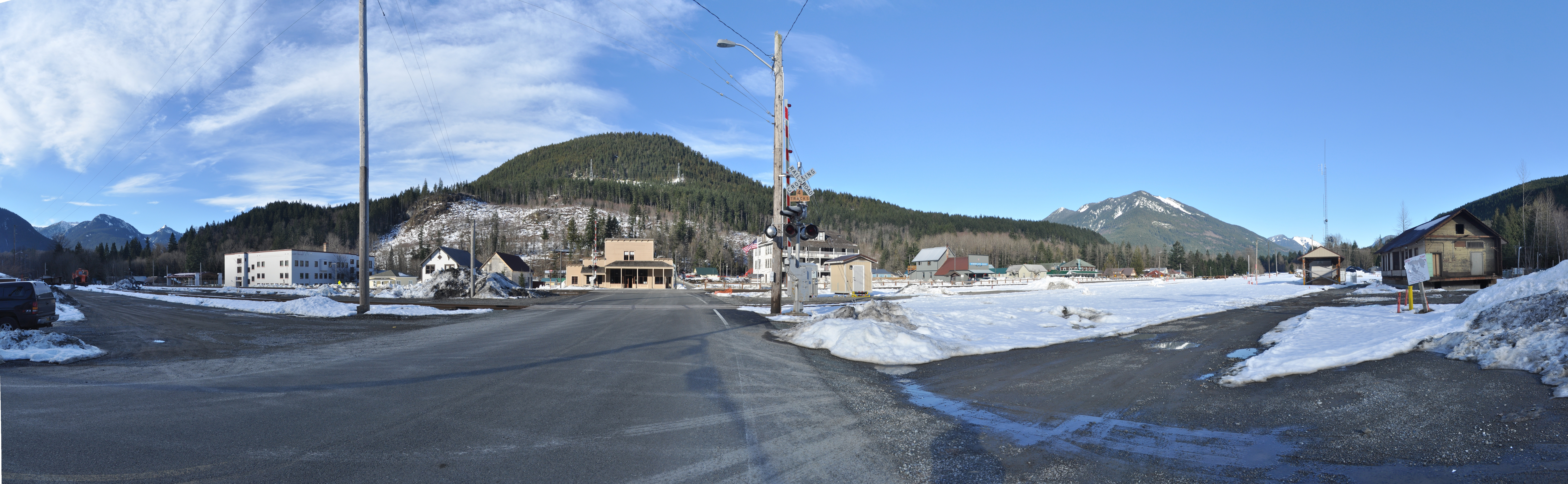 Panoramic view of the heart of Skykomish, Washington, USA. This image was created with Hugin